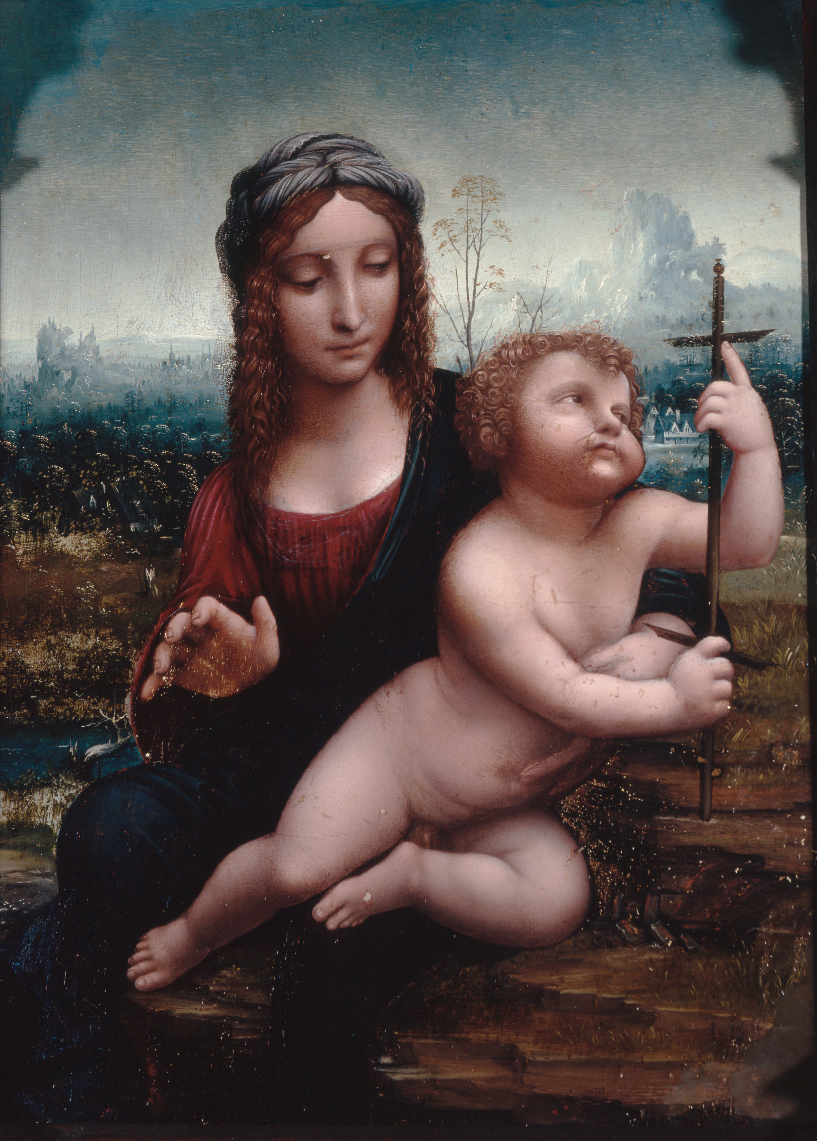 The Madonna of the spindle